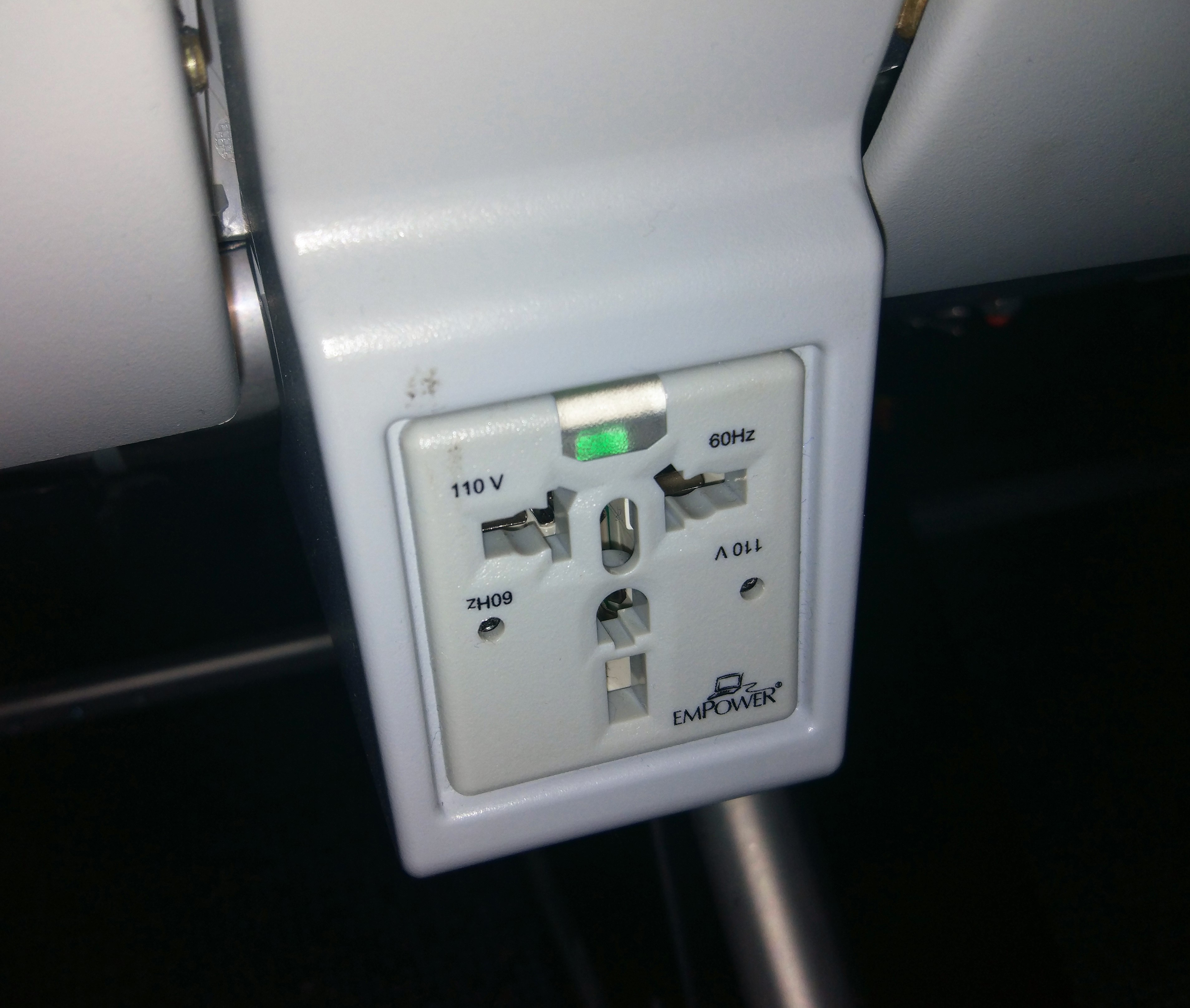 power plug 110 V in passenger aircraft